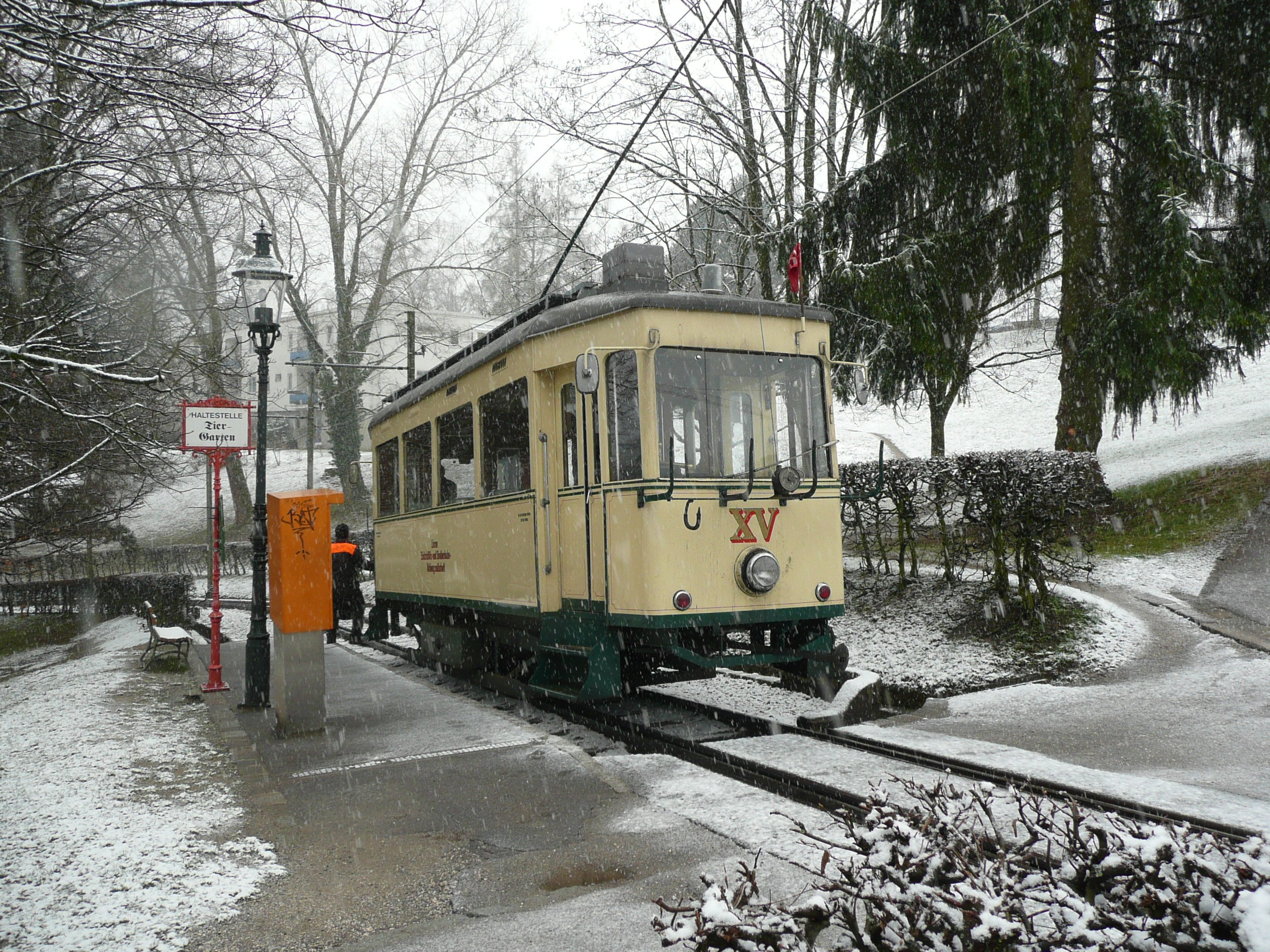 Car XV of the Pöstlingbergbahn at Tiergarten stop. The photo was taken on Friday, 21 March 2008, four days before the beginning of the temporary closure of the line for rebuilding and modernisation.